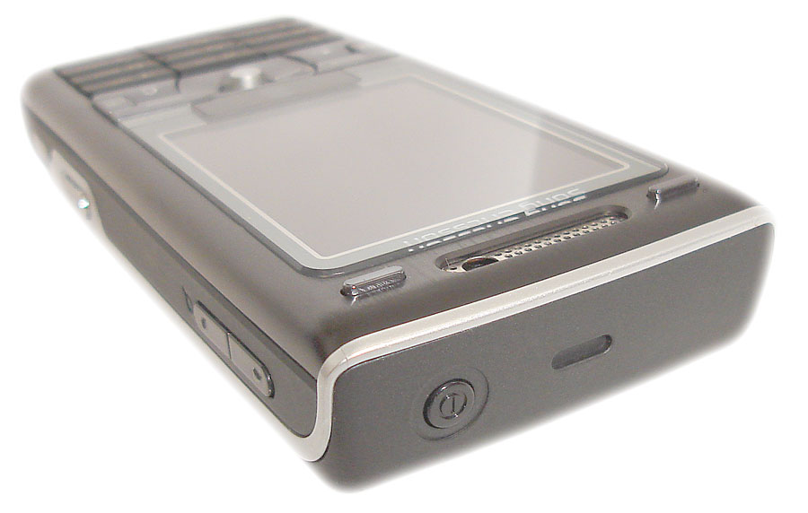 Top view of the Sony Ericsson K800i.